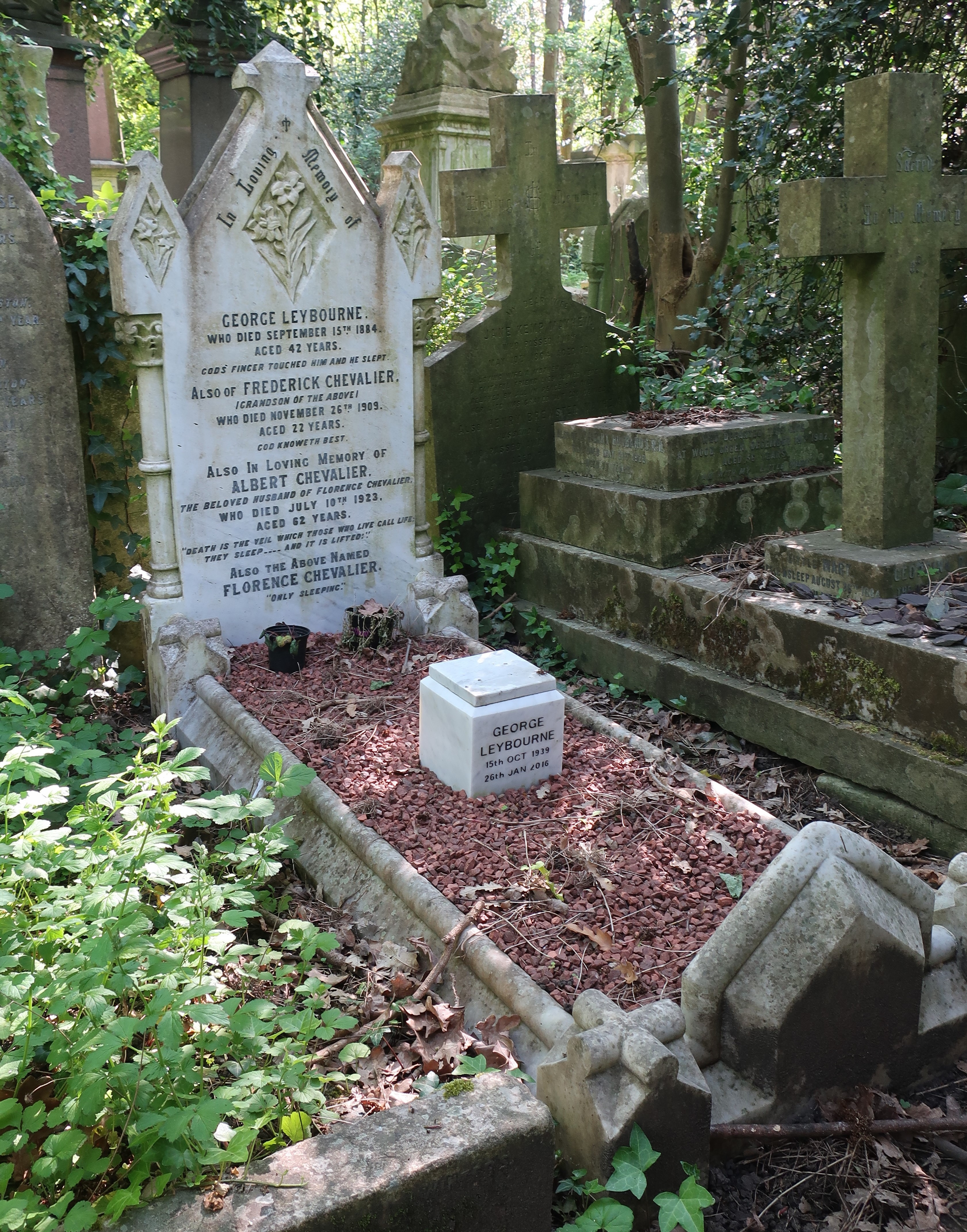 Grave of George Leybourne (1842–1884), music hall artiste, his grandson Frederick Chevalier (d.1909), his son-in-law Albert Chevalier (1861–1923), and his daughter Florence Chevalier, in Abney Park Cemetery, London. A later member of the family, George Leybourne (1939–2016) is also commemorated.